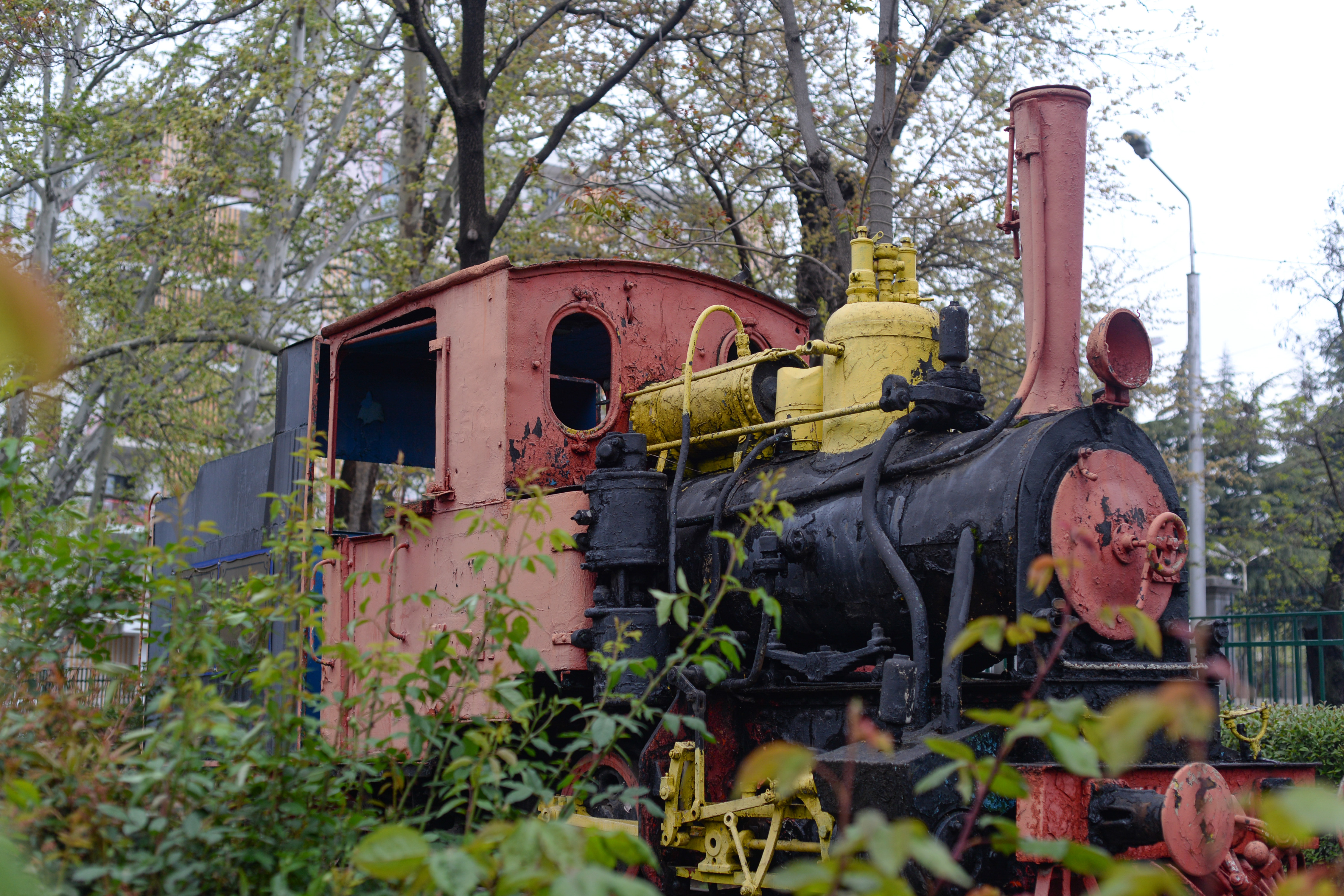 Children's railway in Tbilisi, Arnold Jung Fabric's locomotive